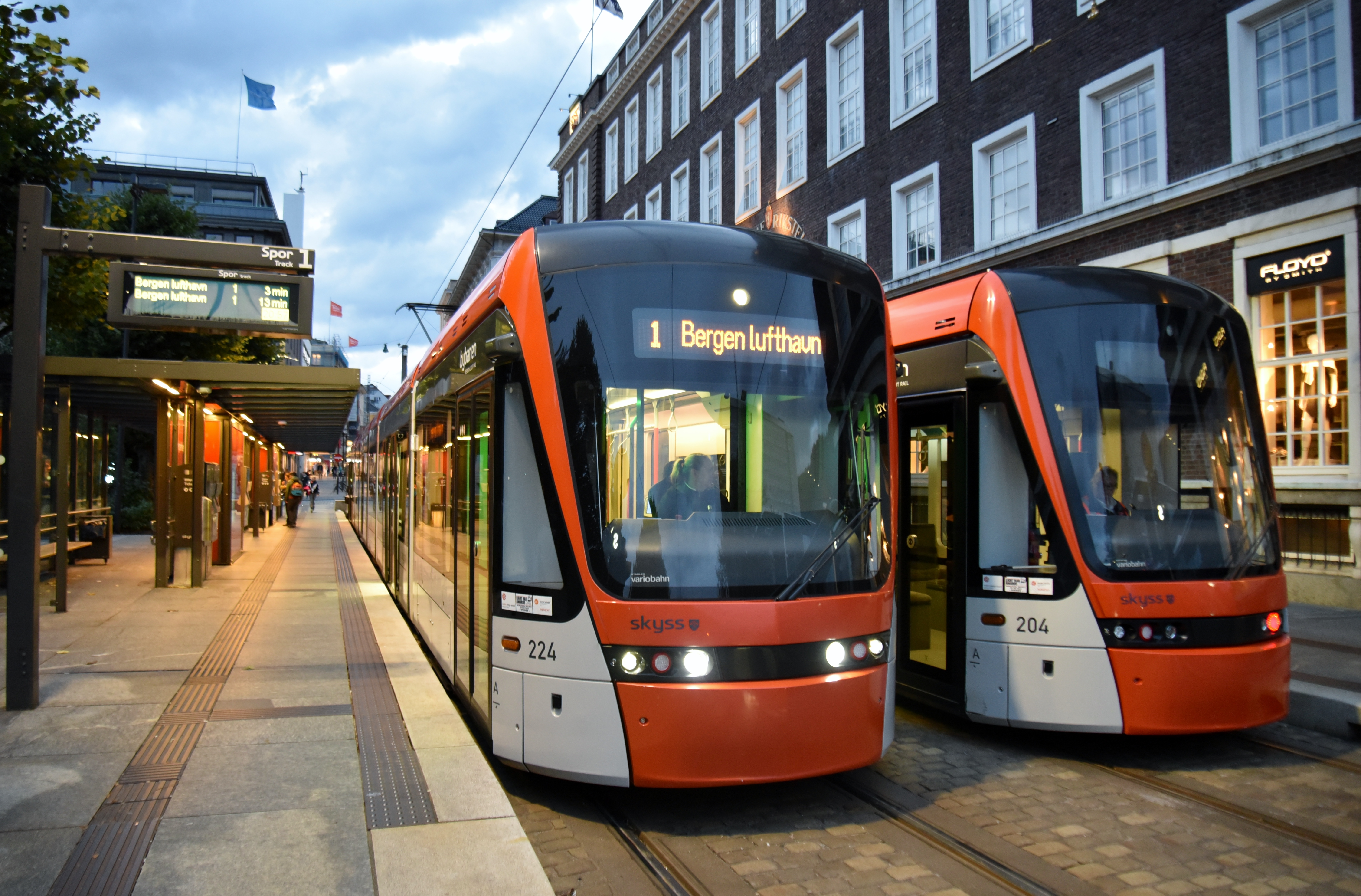 Skyss Stadler Variobahn trams nos. 224 (left) and 204 (right) awaiting departure from, and laying over at, Byparken Terminal, Bergen, Norway, respectively, prior to departing as a Bergen Light Rail line 1 service to Bergen Airport light rail stop